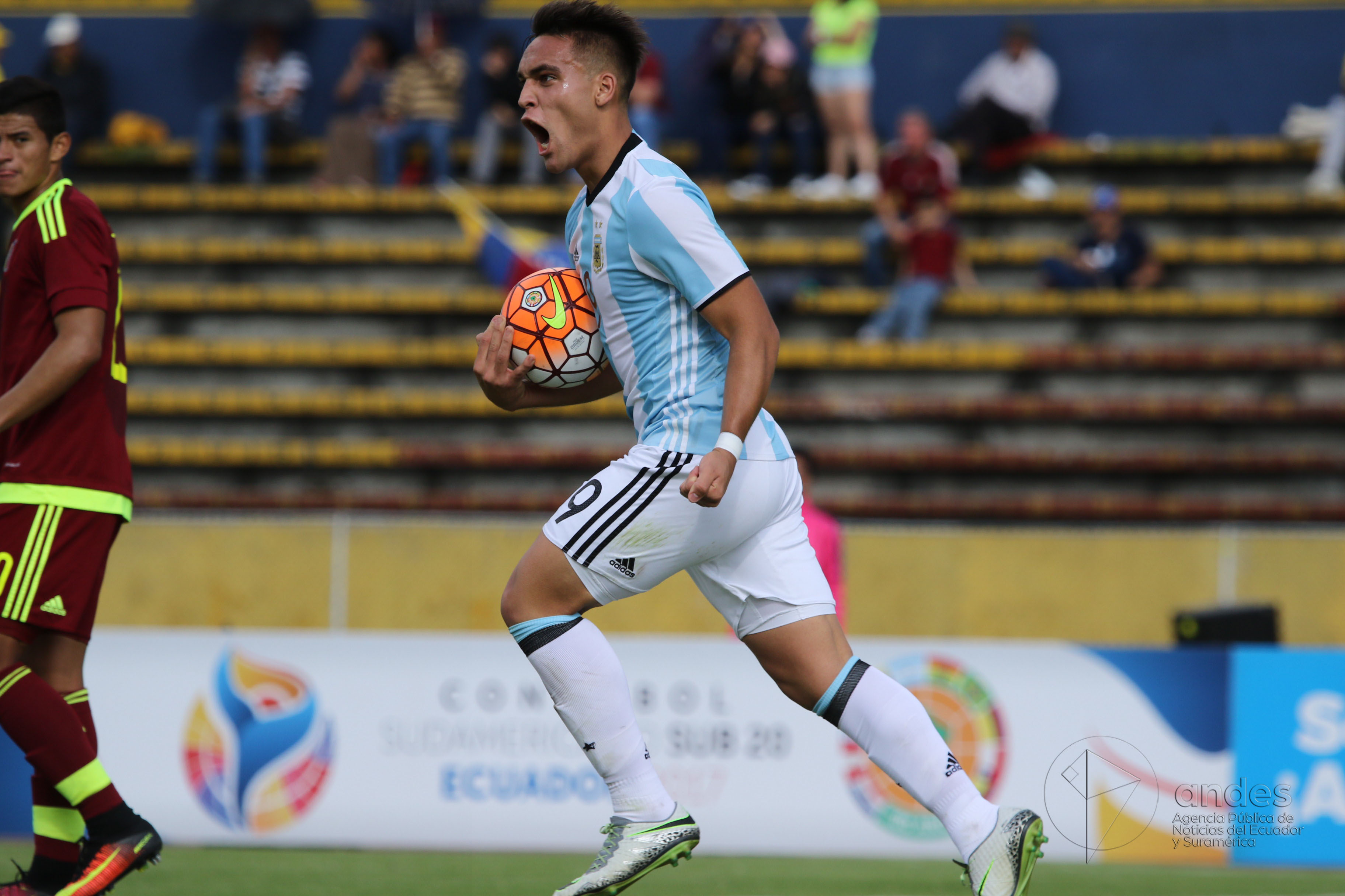 ARGENTINA VS VENEZUELA SUB 20